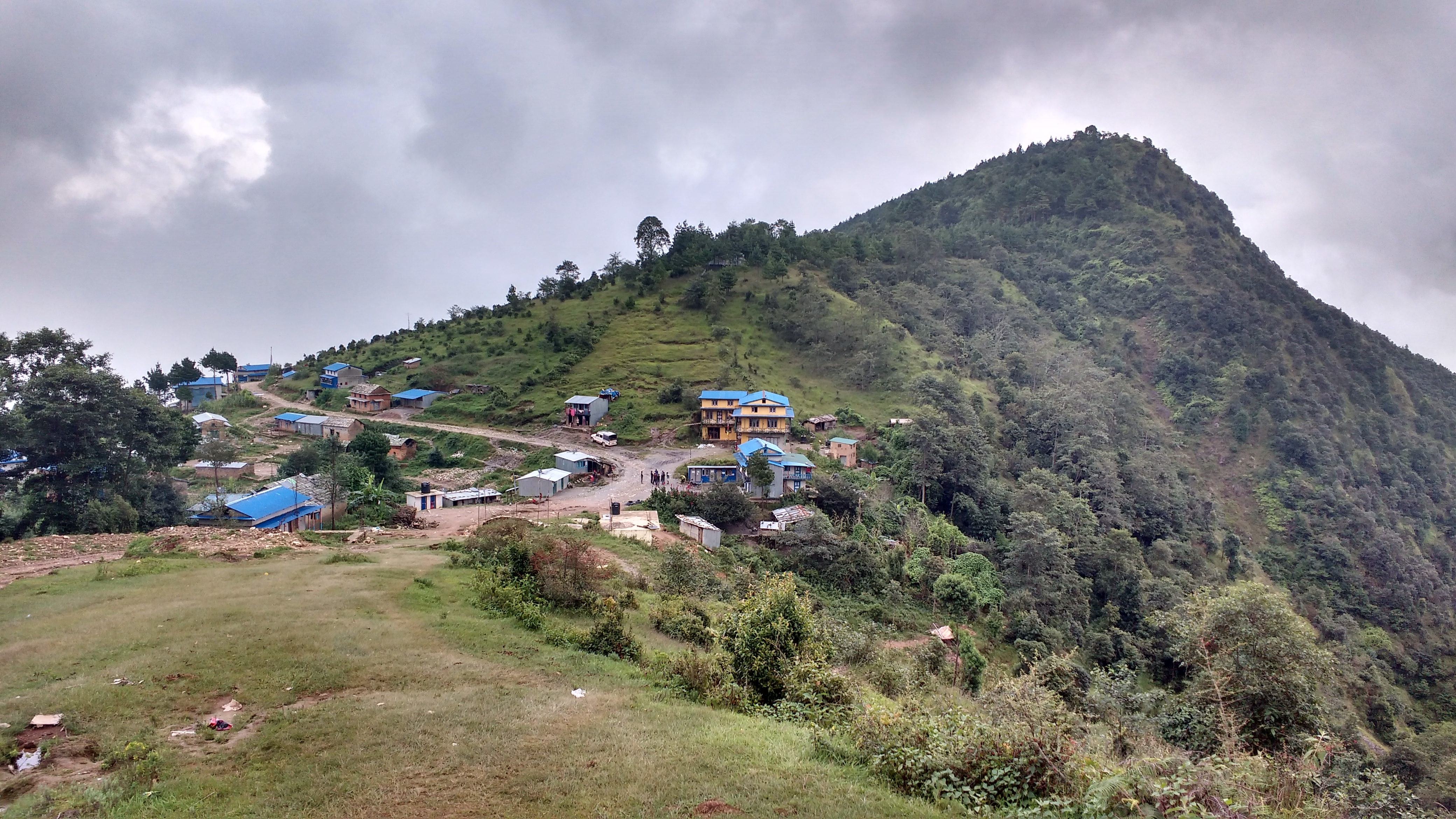 Kosh Bhanjyang area from western part